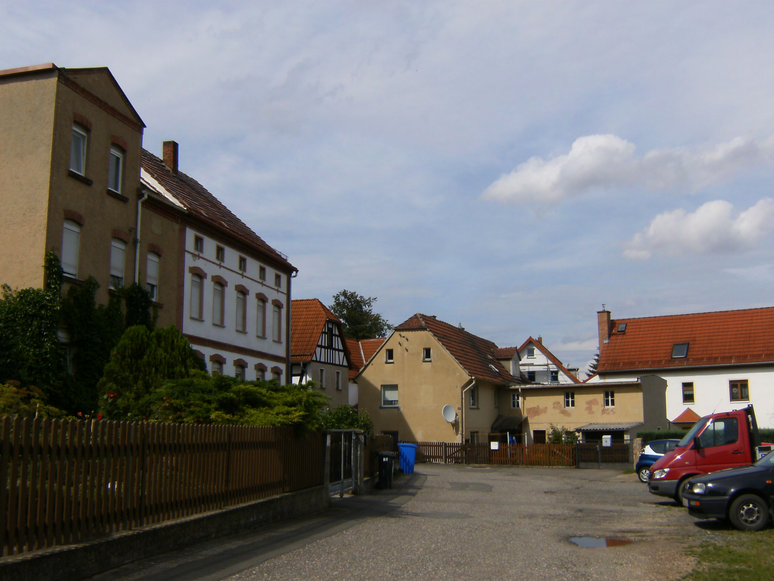 Rubitz, suburb of Gera (Thuringia), part of village, the so called "Cosse".